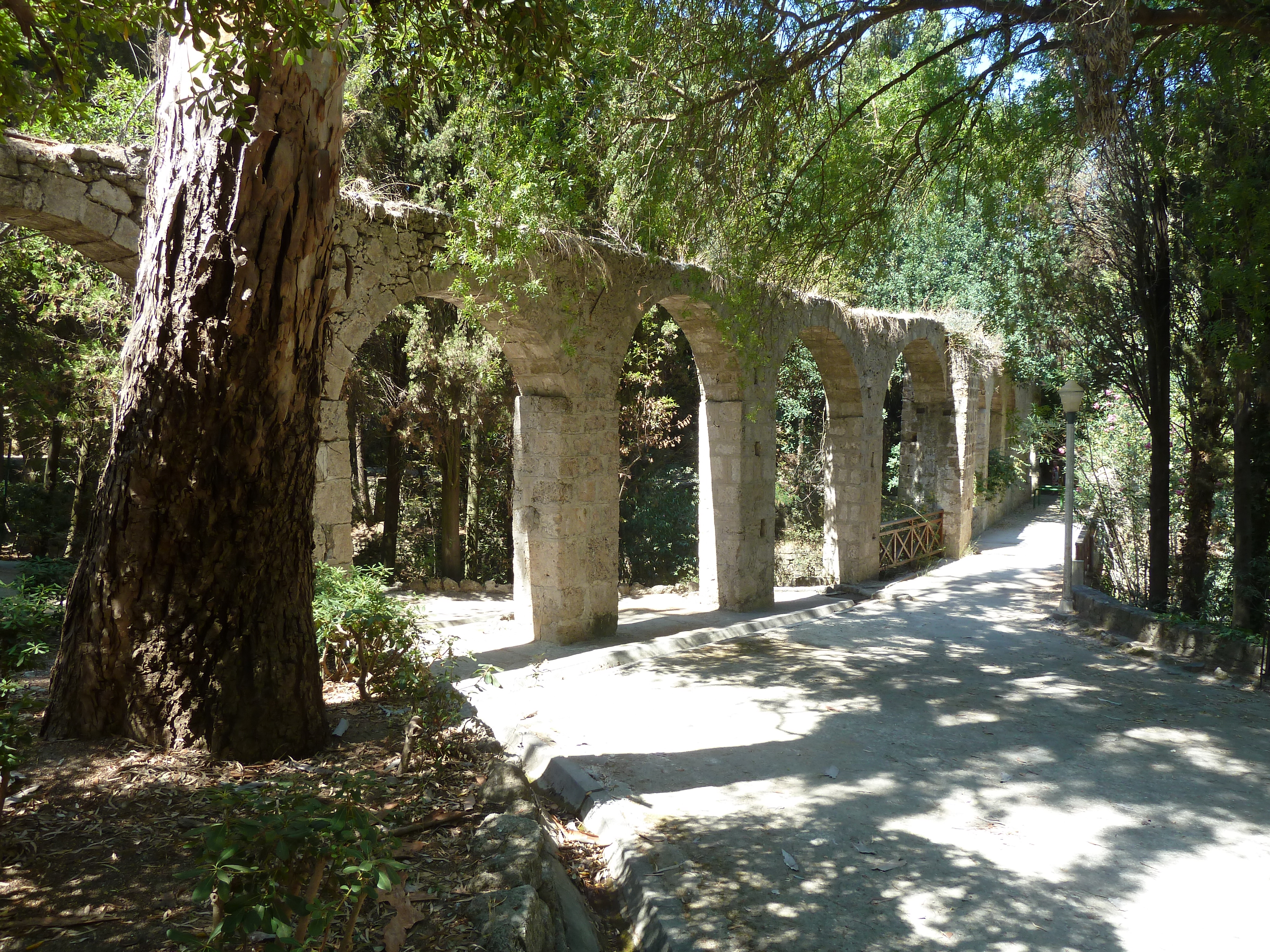 Rodini Park.Rodos